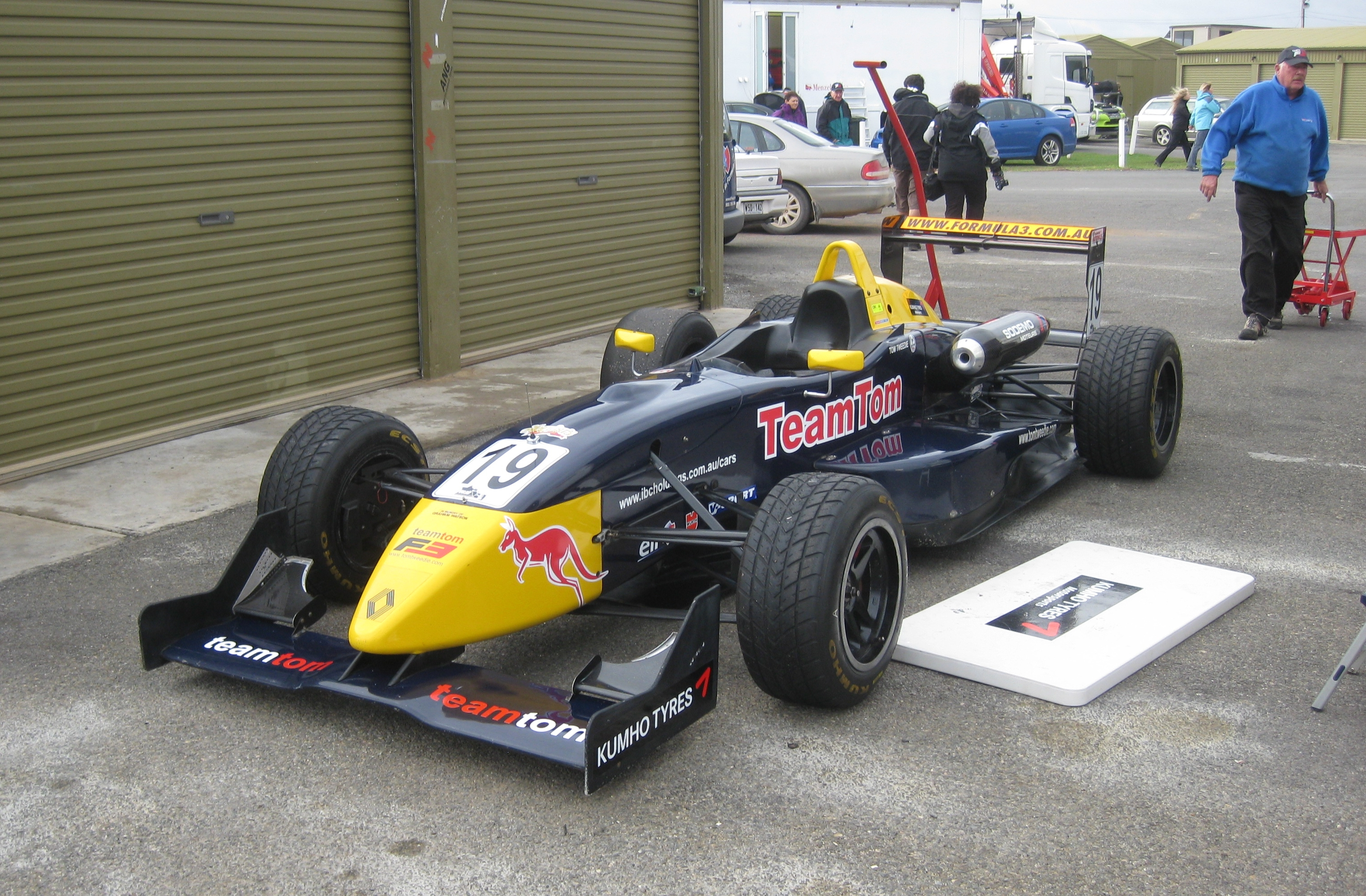 The Dallara F304 of Tom Tweedie at Mallala Motor Sport Park for Round 4 of the 2010 Australian Drivers' Championship.